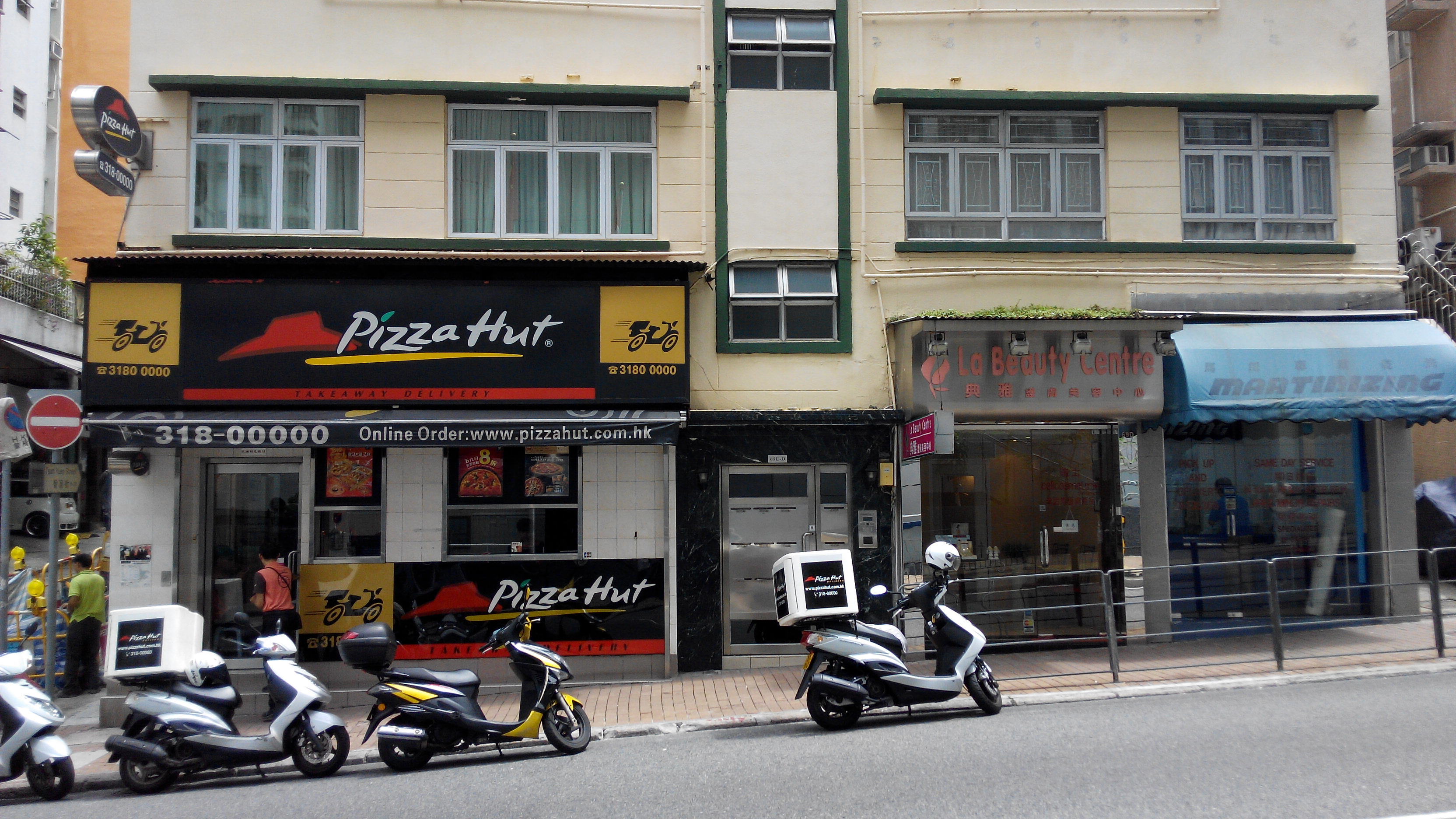 跑馬地, Sing Woo Road, 成和道, Happy Valley, Hong Kong